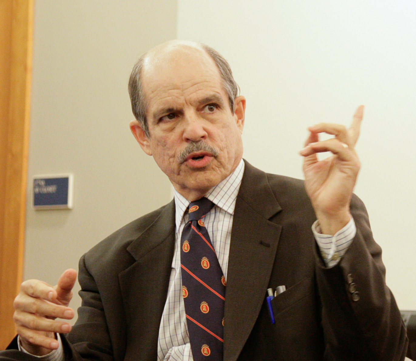 Paul Solman, economics correspondent for the PBS NewsHour, at the Rappaport Center for Law and Public Policy in September 2009